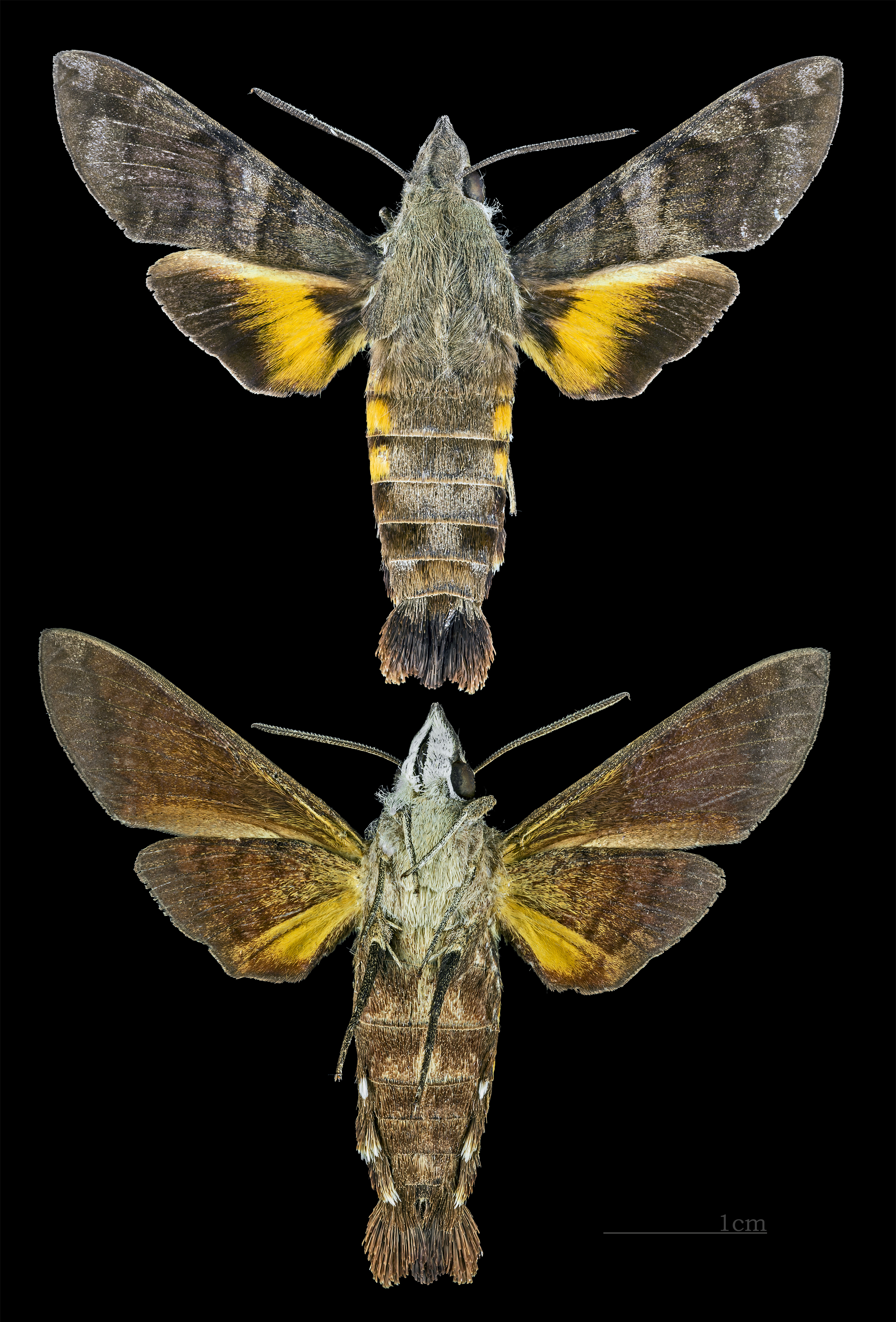 Macroglossum belis - Two views of same specimen Collection of the Mathematician Laurent Schwartz